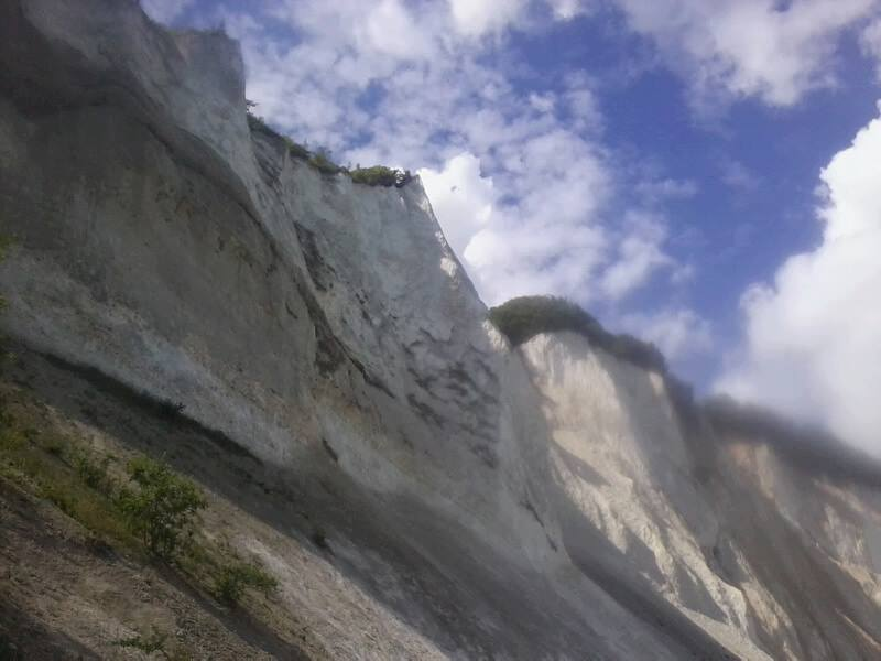 White Cliffs. The photo was taken by myself